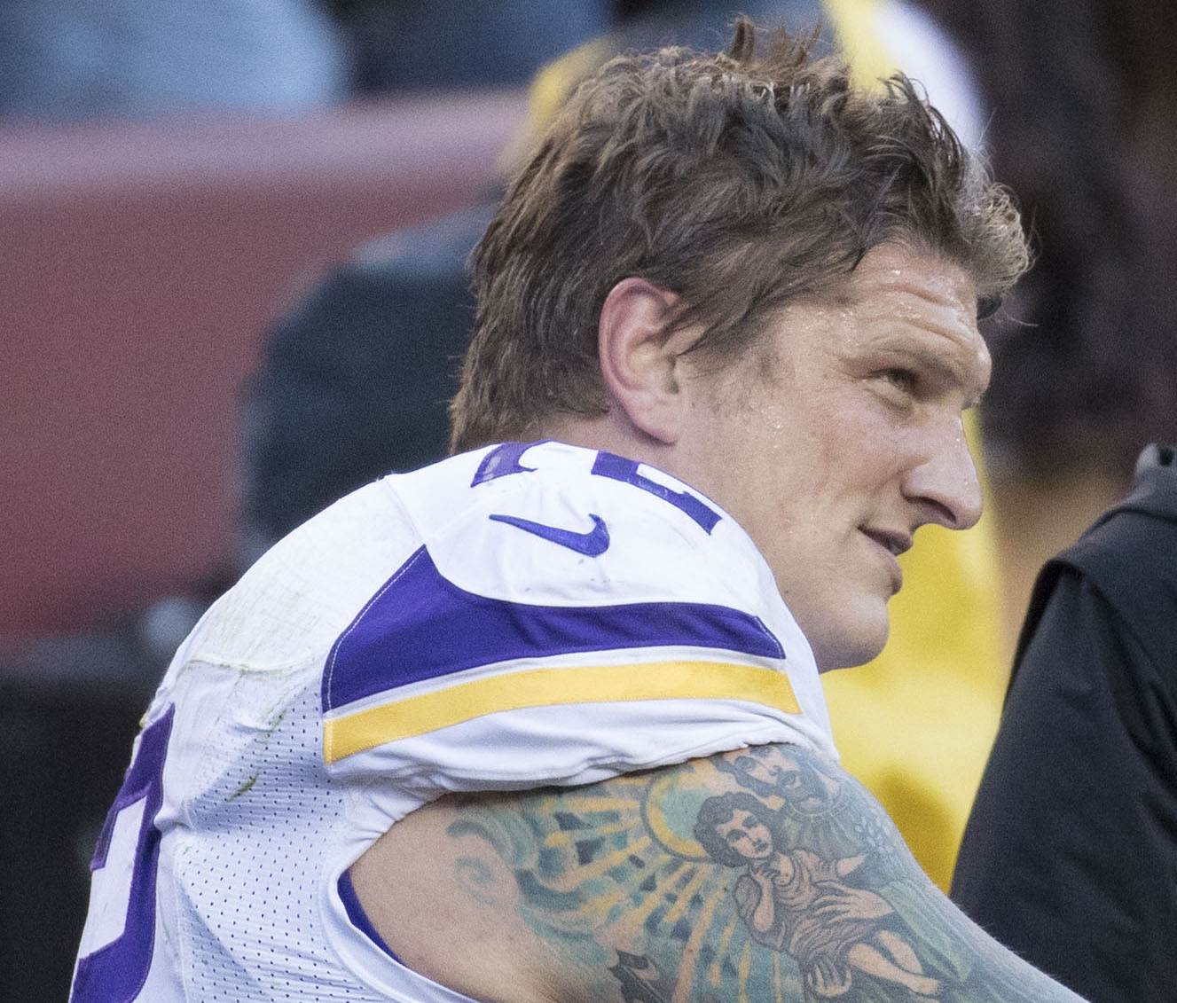 Minnesota Vikings offensive tackle, Jake Long, being carted off during a game against the Washington Redskins on November 13, 2016.